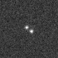 Hubble Space Telescope image of the cubewano 58534 Logos and its companion Zoe, taken on 16 February 2004